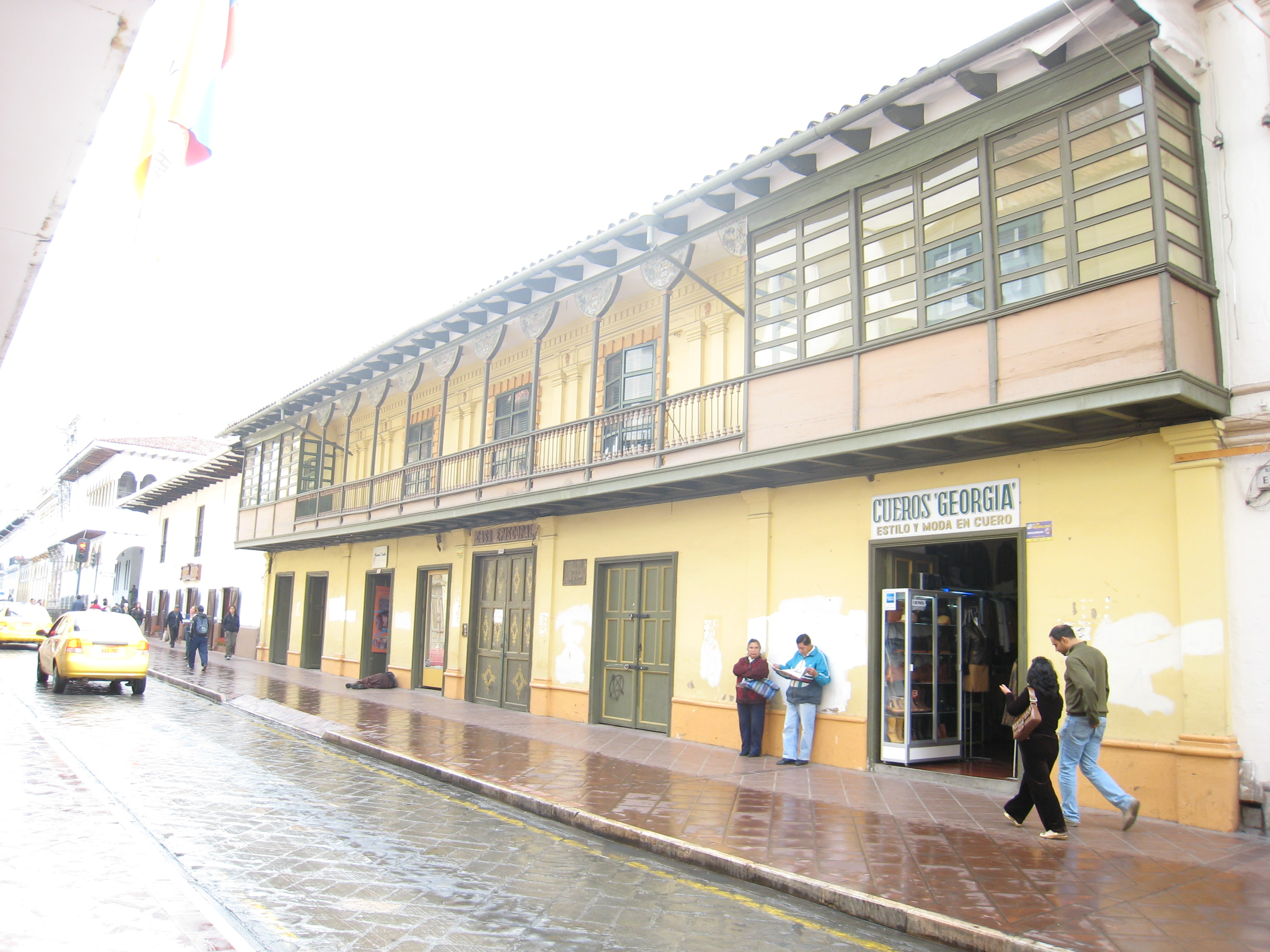 Archiepicopal Palace, Cuenca, Ecuador